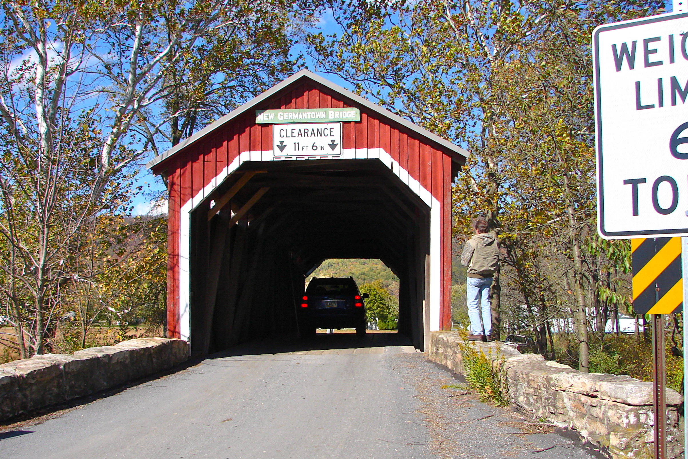 New Germantown Covered Bridge on the NRHP since August 25, 1980. South east of New Germantown on Township 302 (Lower Buck Ridge Rd), Toboyne Township, Perry County, Pennsylvania